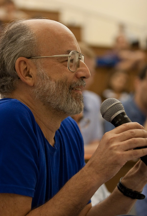 AntiBiometrics-7978